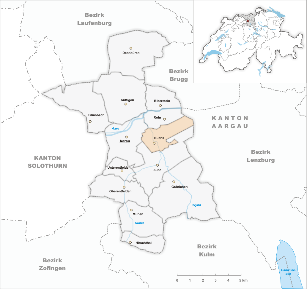 Municipality Buchs